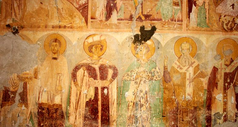 Frescos in Church of the Ascension of Jesus in historical village Čebren, Macedonia